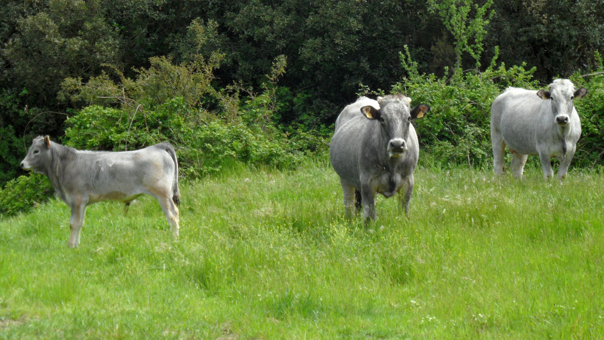 Cows in Laroque-de-Fa, Aude, France